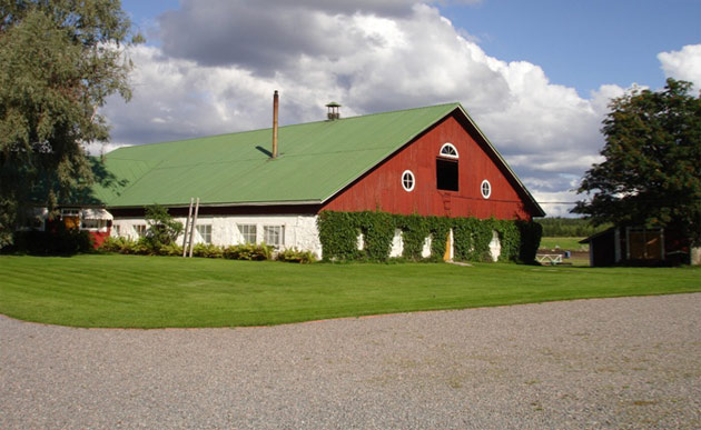 Sahalan Kartano, Salli production facilities